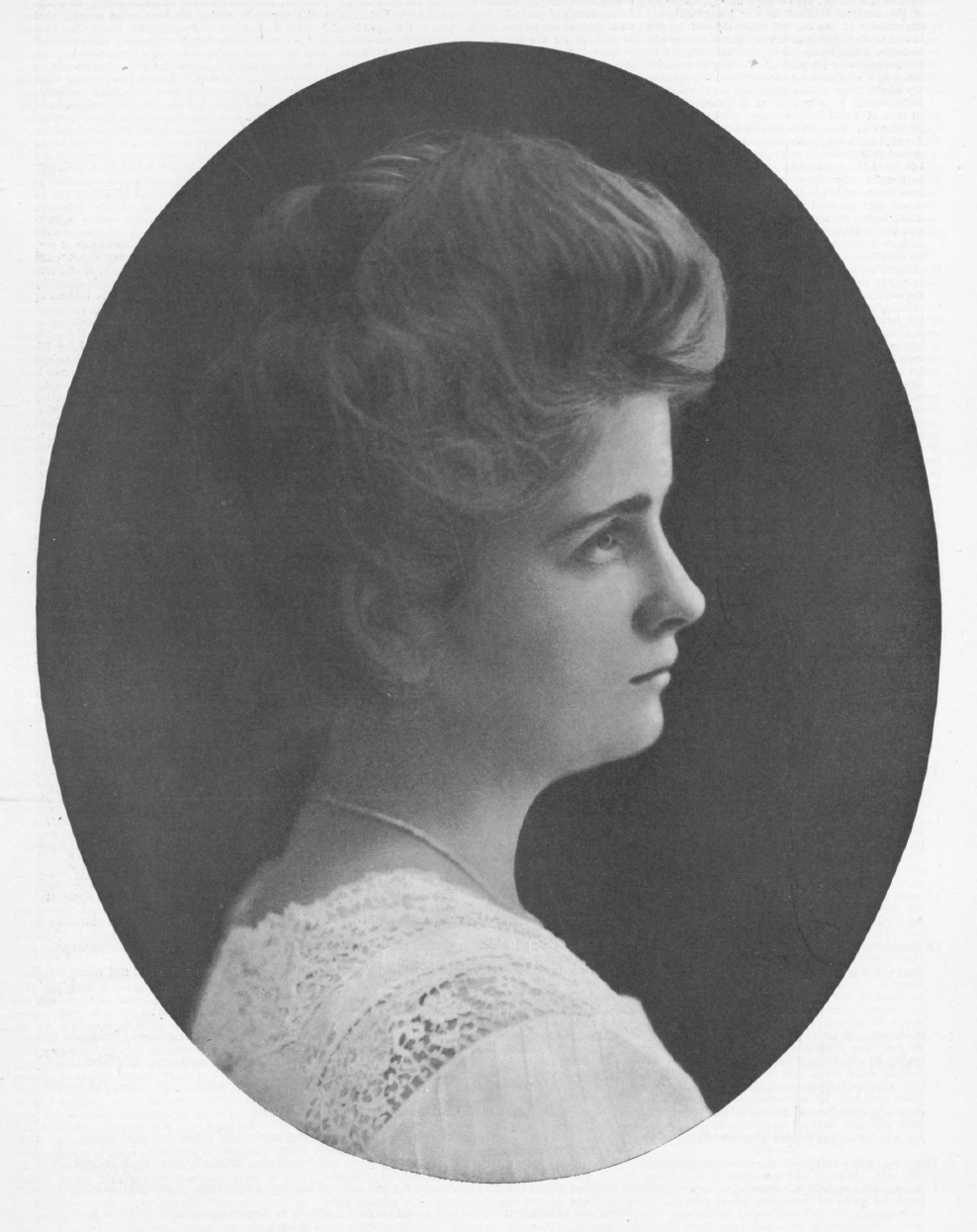 Portrait of Helen Margaret Kelly, the first wife of Frank Jay Gould